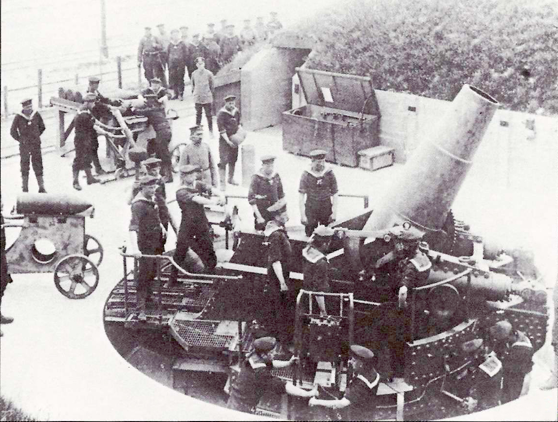 A 28 cm Küstenhaubitze L/12 (coastal howitzer) of the battery 'Groden' between Zeebrugge and Blankenberge.